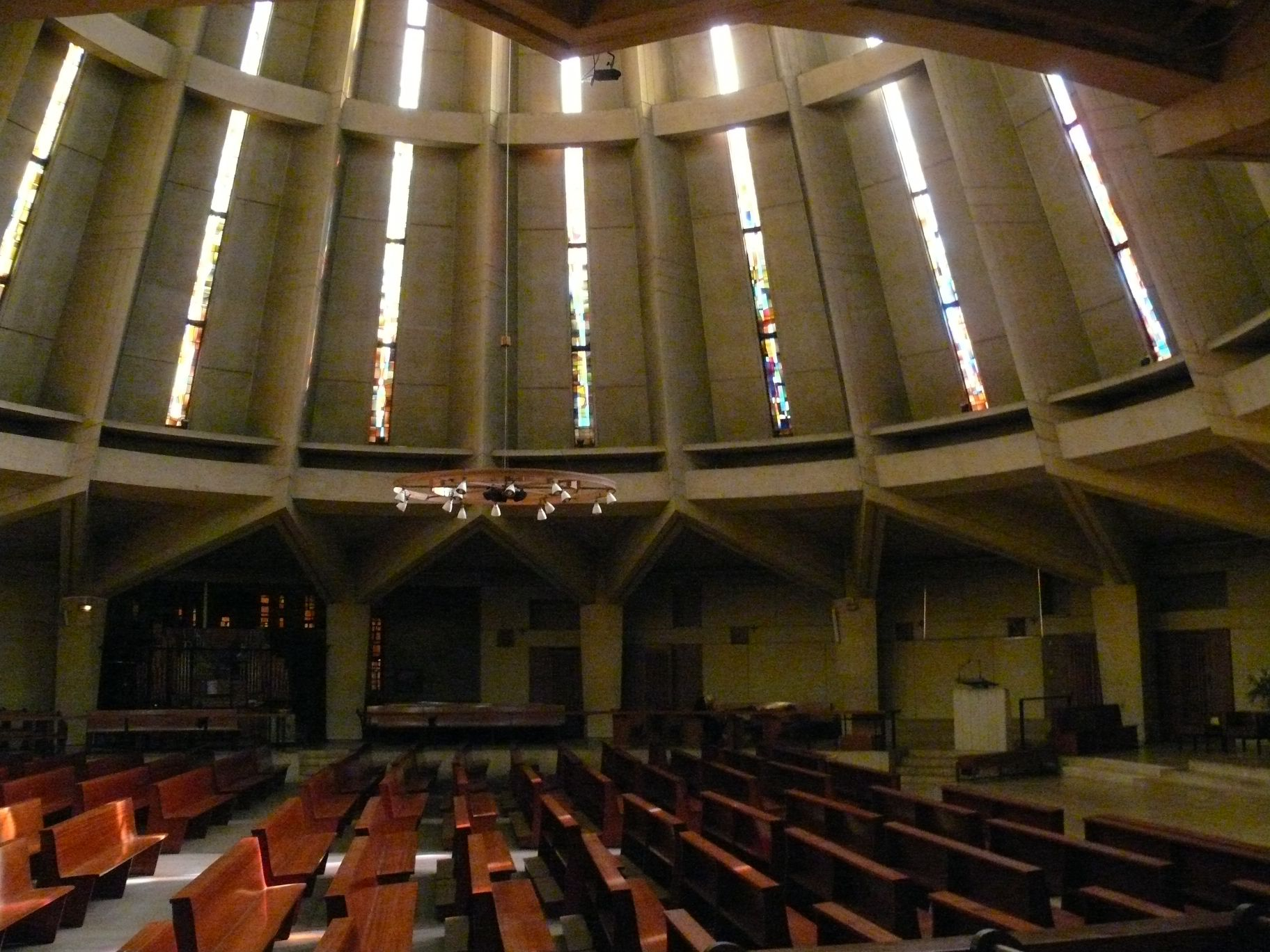 Notre-Dame-de-la-Salette's church, in Paris (Paris XV, France)